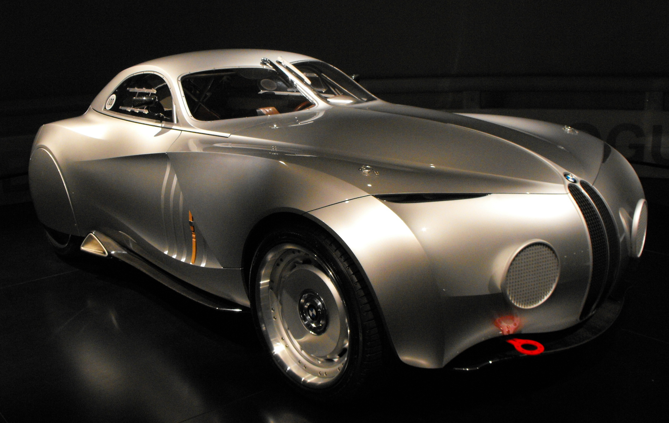 BMW Mille Miglia, picture taken in BMW Museum